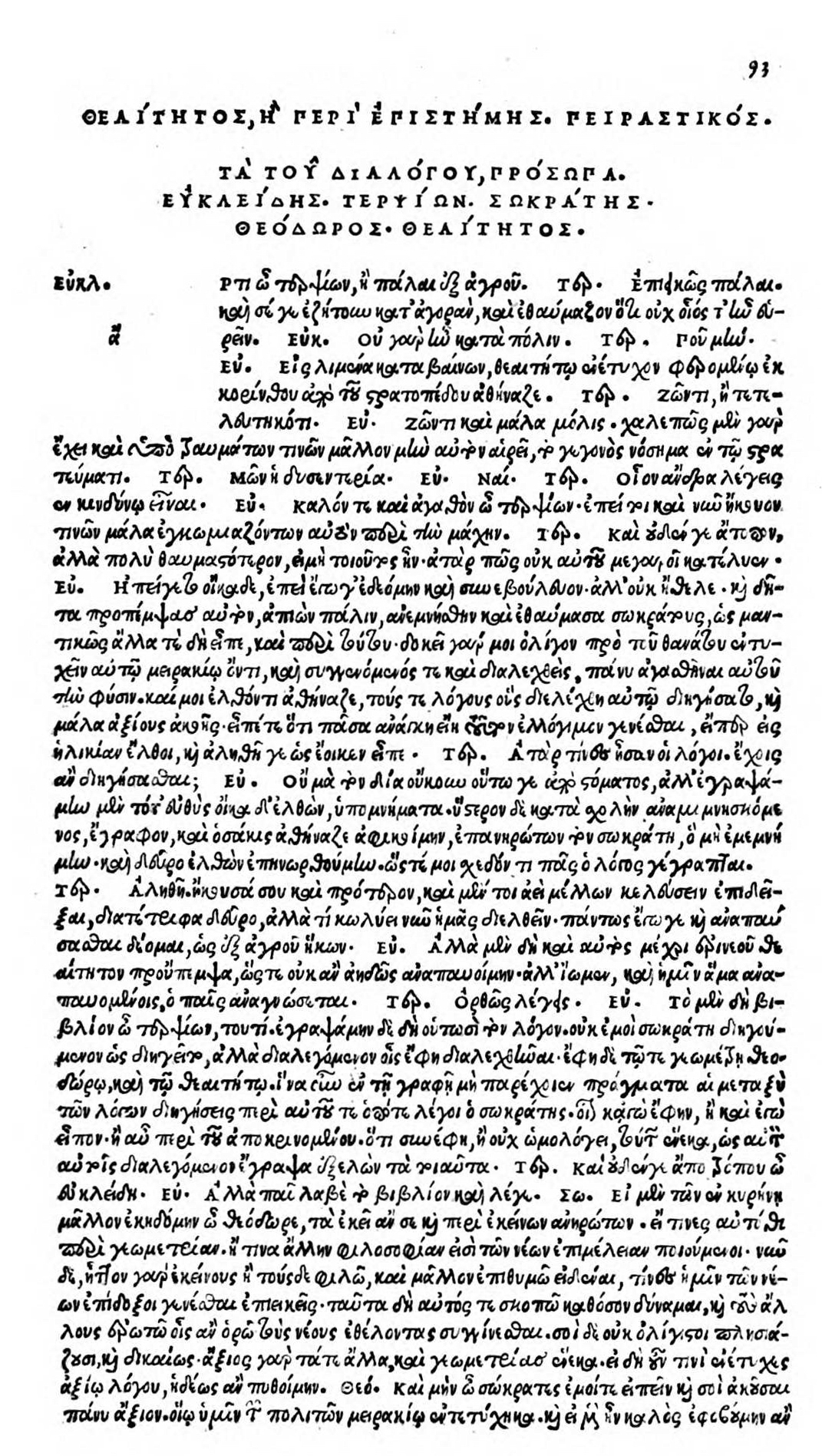 Theaitetos beginning. Editio princeps, Venice 1513.